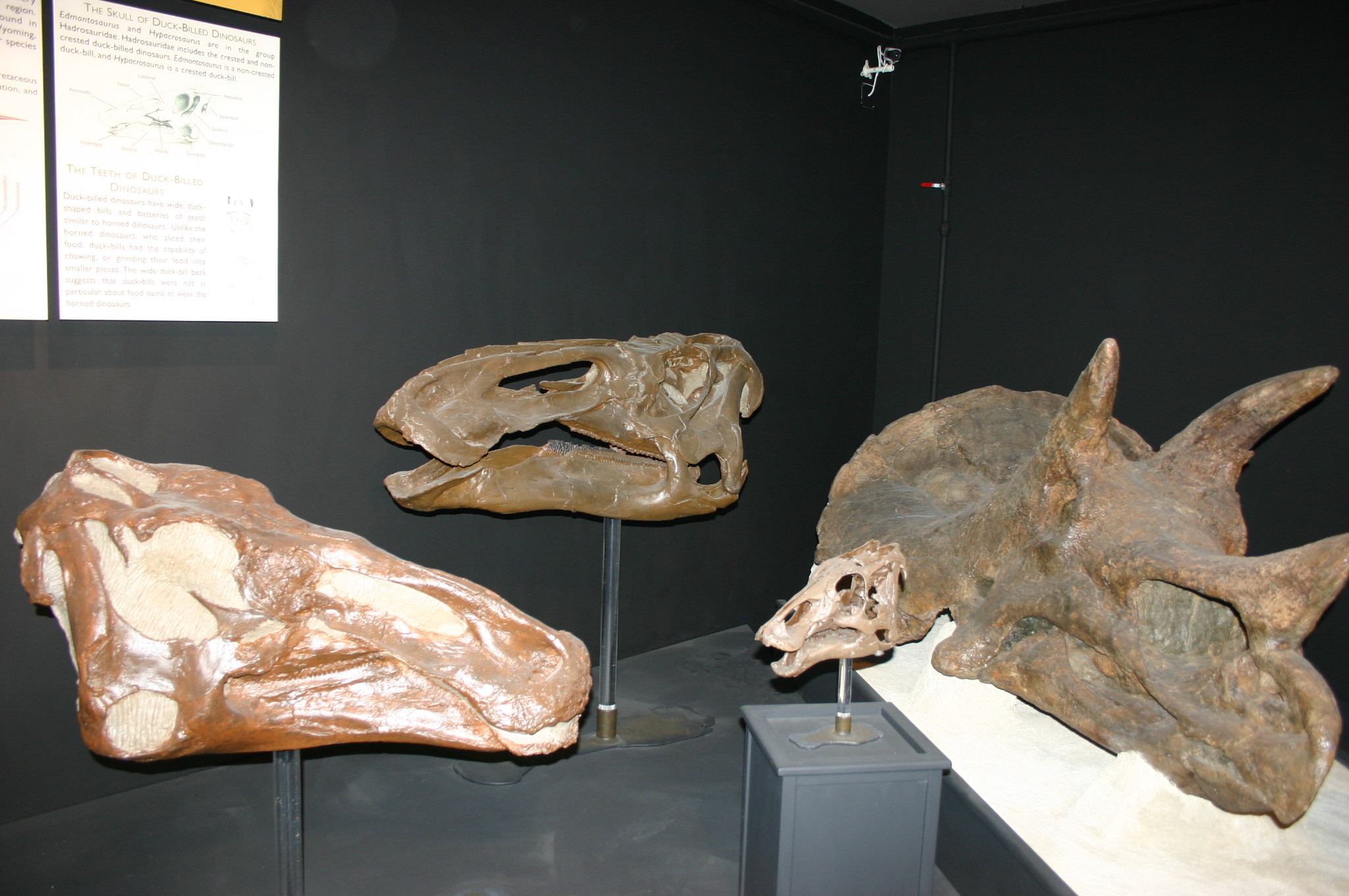 Museum of the Rockies, Bozeman, MT: skulls of duck-billed dinosaurs (“edmontosaurs”) and of a ceratopsid